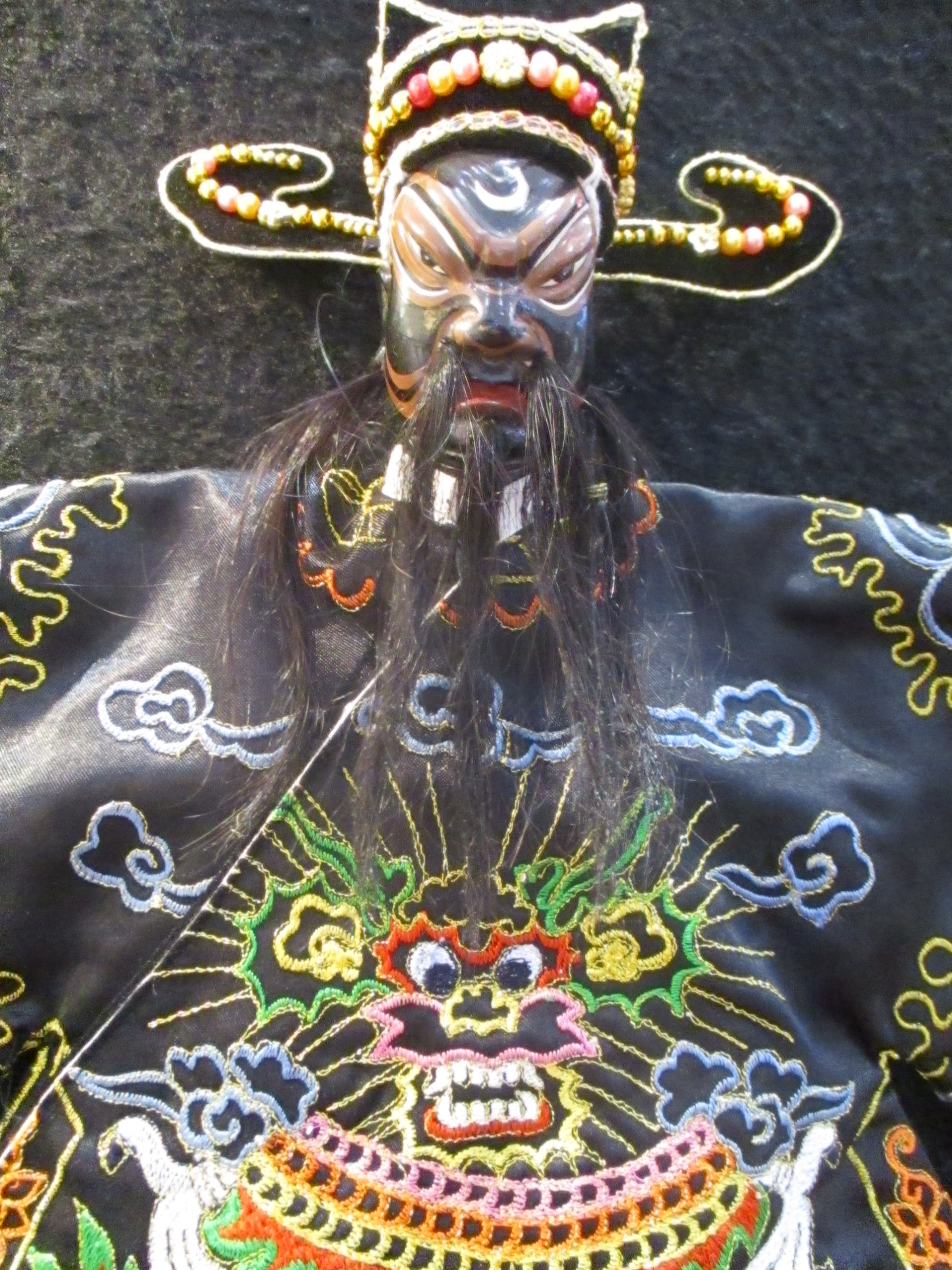 A personage of Bao Wen Zheng (包文拯 Pau Bûn-chín) in Wayang Potehi. This is probably the work of Gudo Potehi Troupe from East Java, Indonesia, during an exhibition in Puri Mall, West Jakarta.